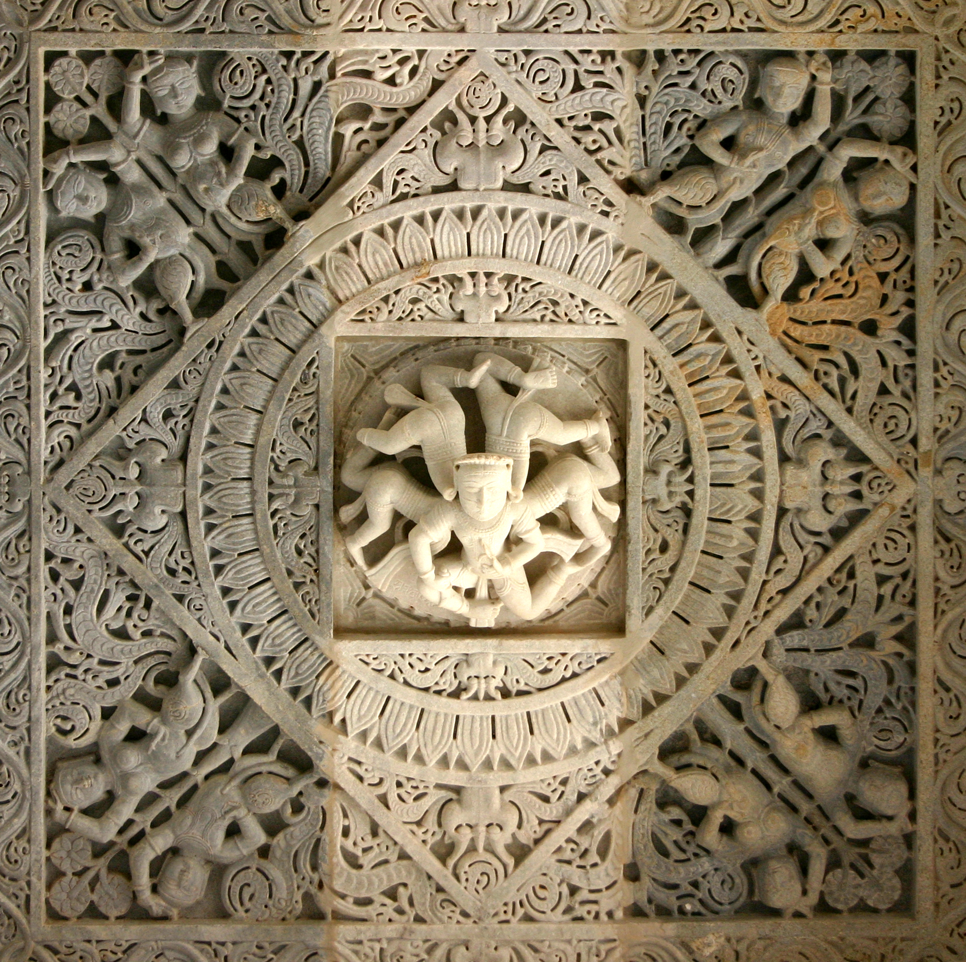 Marble carving in the Jain temple complex of Ranakpur, Rajasthan